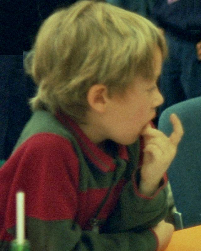 Luke McShane, World Youth Chess Champion (under 10) 1992 at Duisburg, Photographer Gerhard Hund.